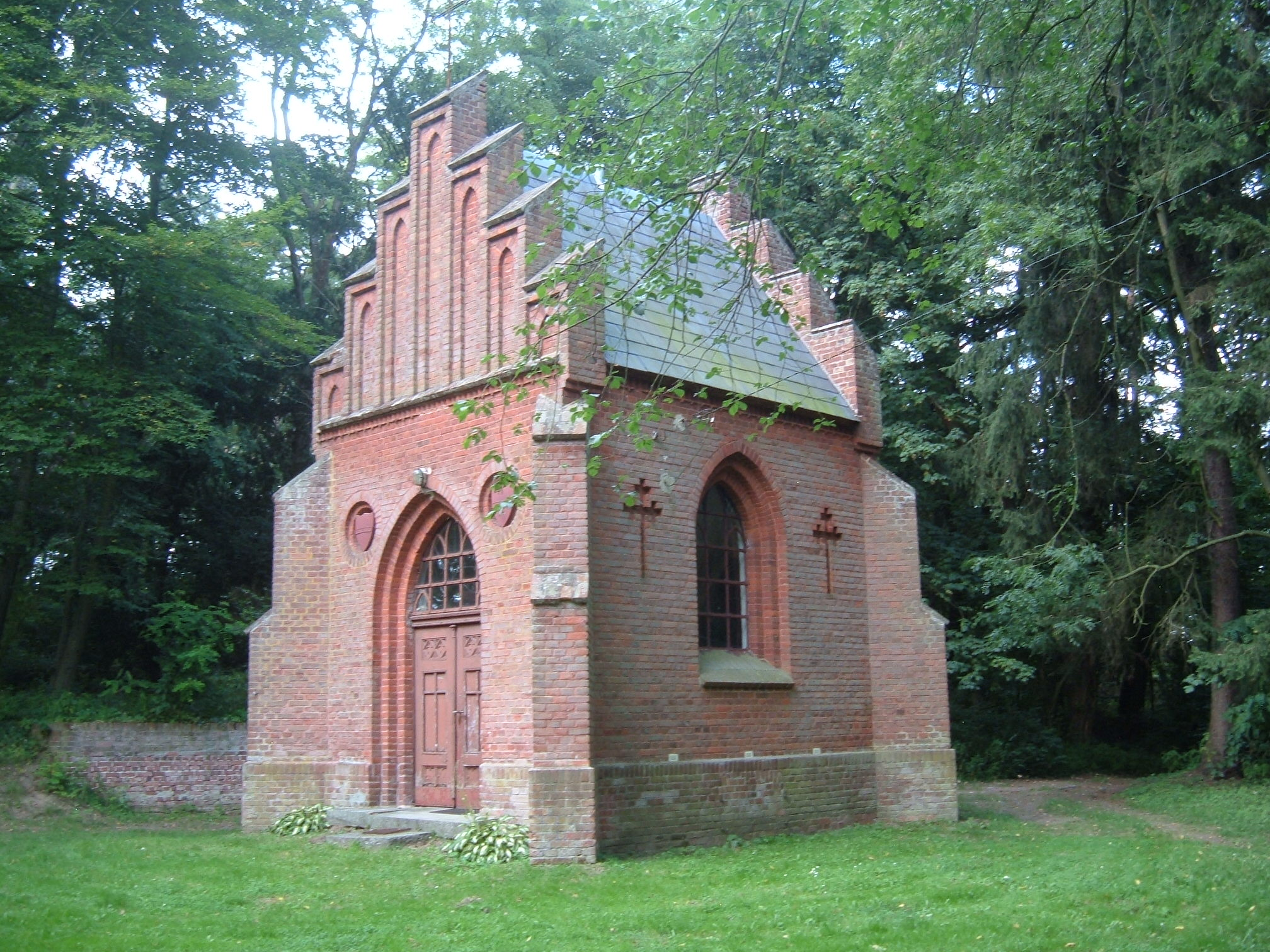 Dorf Szumiąca, gmina Kamień Pomorski, powiat kamieński, West Pomeranian Voivodeship, 72-400, Poland